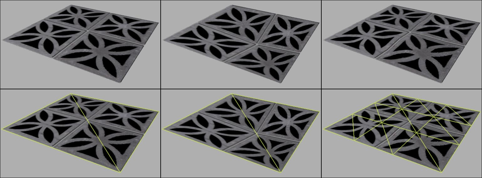 Perspective correction for texture mapping in 3D graphics rendering